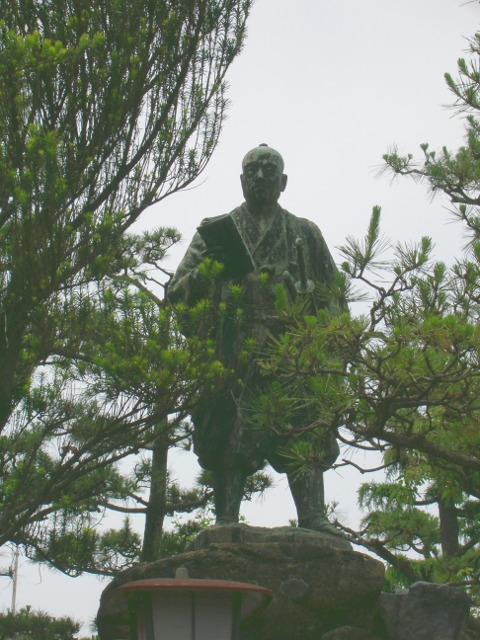 Statue of Tsugane Taneomi (Bunzaemon), Owari domain's Samurai. Edo Period. Loc: Tobishima, Aichi Prefecture, Japan. 津金胤臣の銅像。 撮影場所 愛知県海部郡飛島村